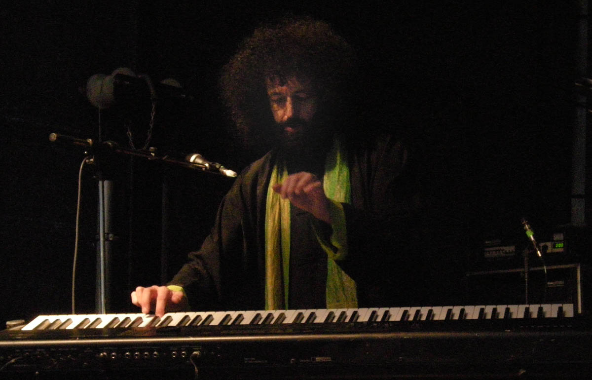 Singer, songwriter and actor Timna Brauer with husband 'Elias Meiri performing at Vienna's 25th annual "Stadtfest".